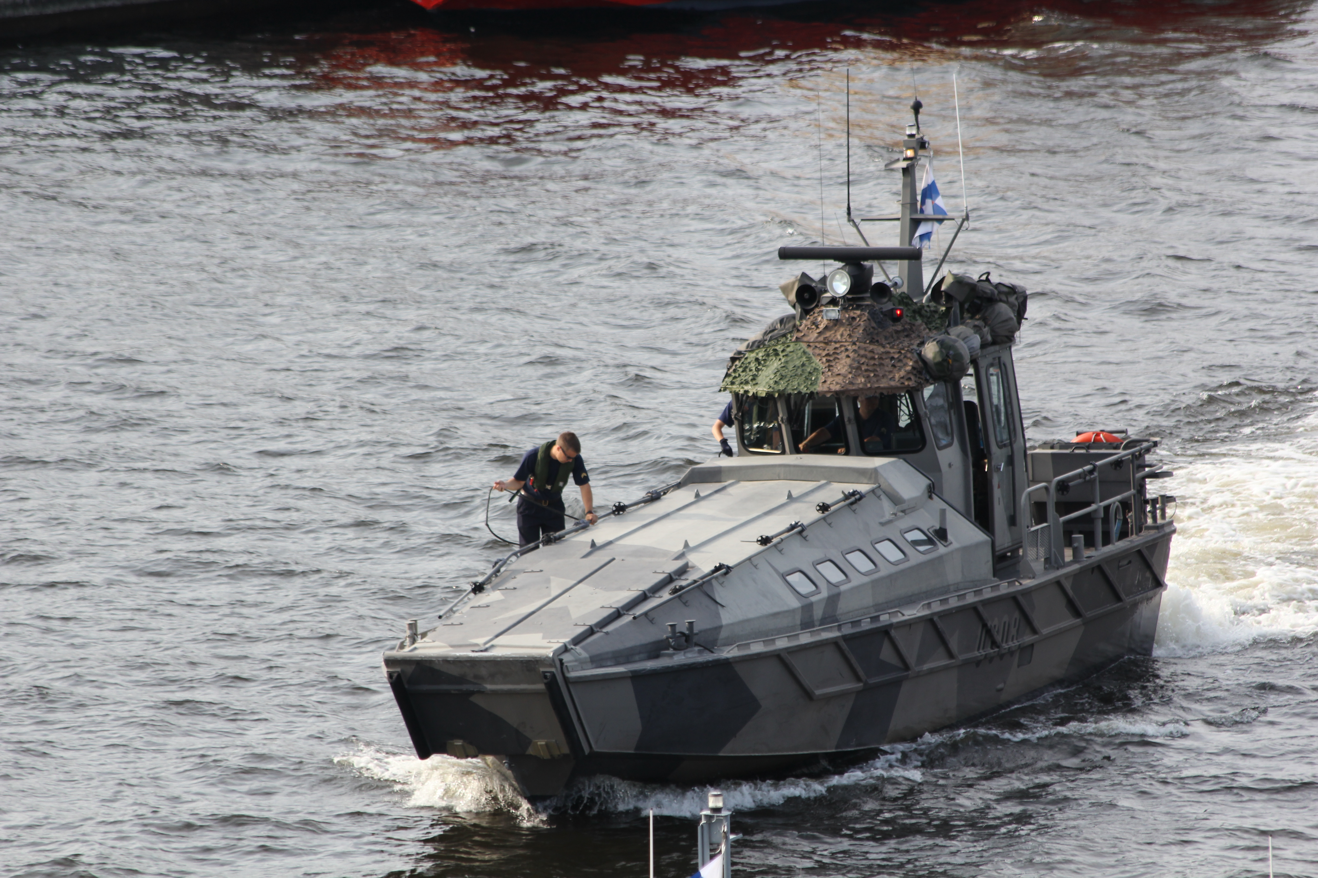 Jurmo U608 landing craft in Kuusinen harbour in Kotka a day before Finnish Navy 2013 anniversary. Photographed from Kuusinen observation tower.